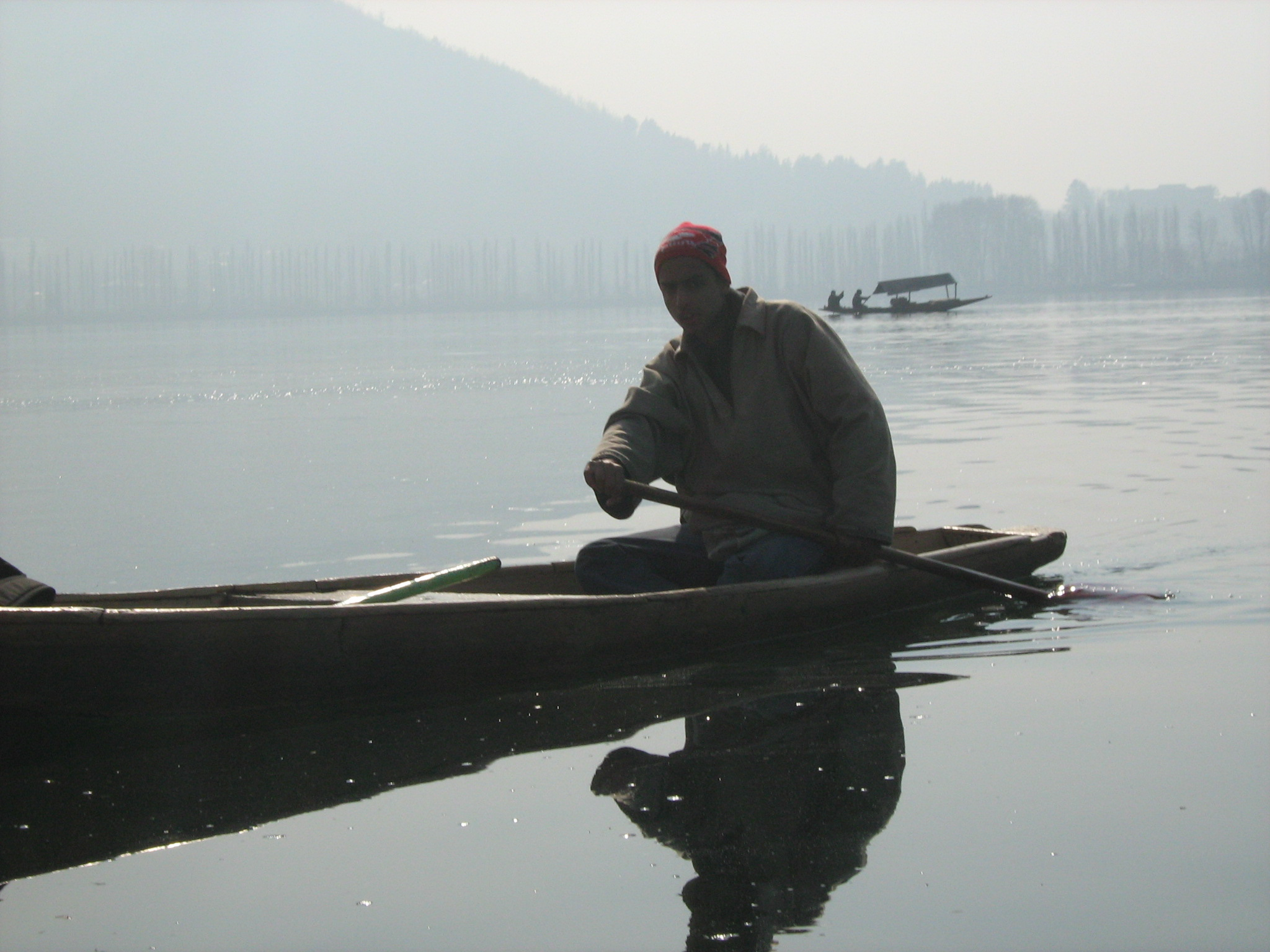 A Kashmiri wading through Dal Lake